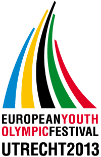 Logo of the 2013 European Youth Summer Olympic Festival